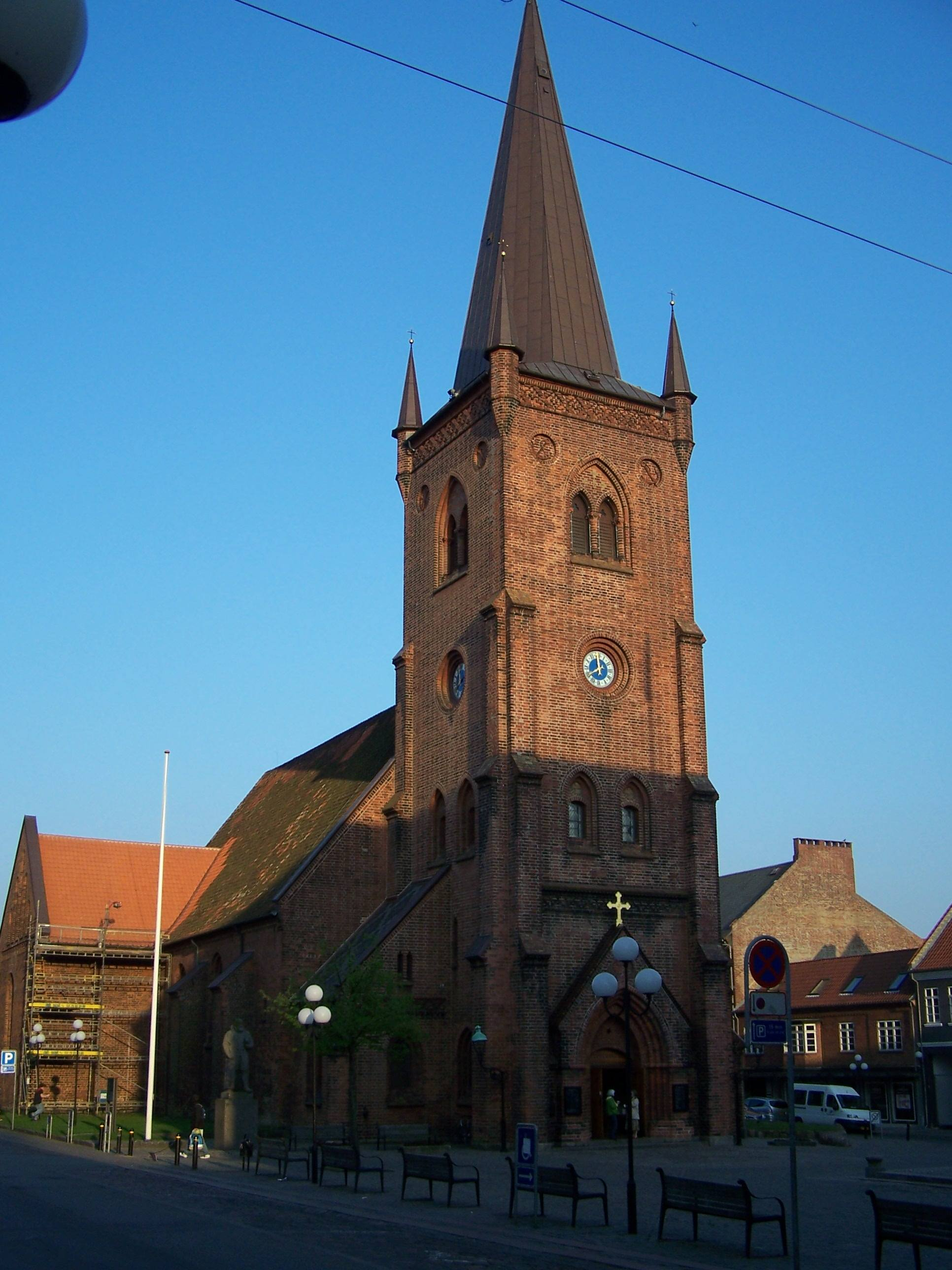 (c) 2006, Niels Elgaard Larsen Sct. Nicolay Church in Vejle, Denmark